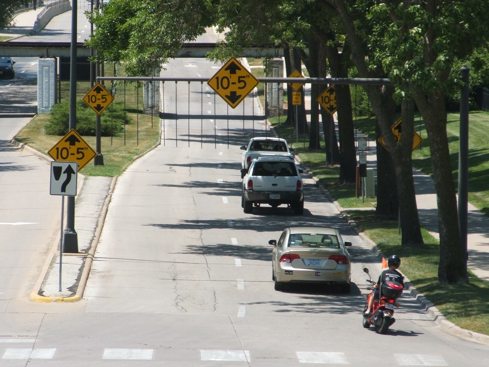 a tell-tale to alert drivers of oversized vehicles of the low clearance of the upcoming bridge over Iowa Avenue in Iowa City. Iowa